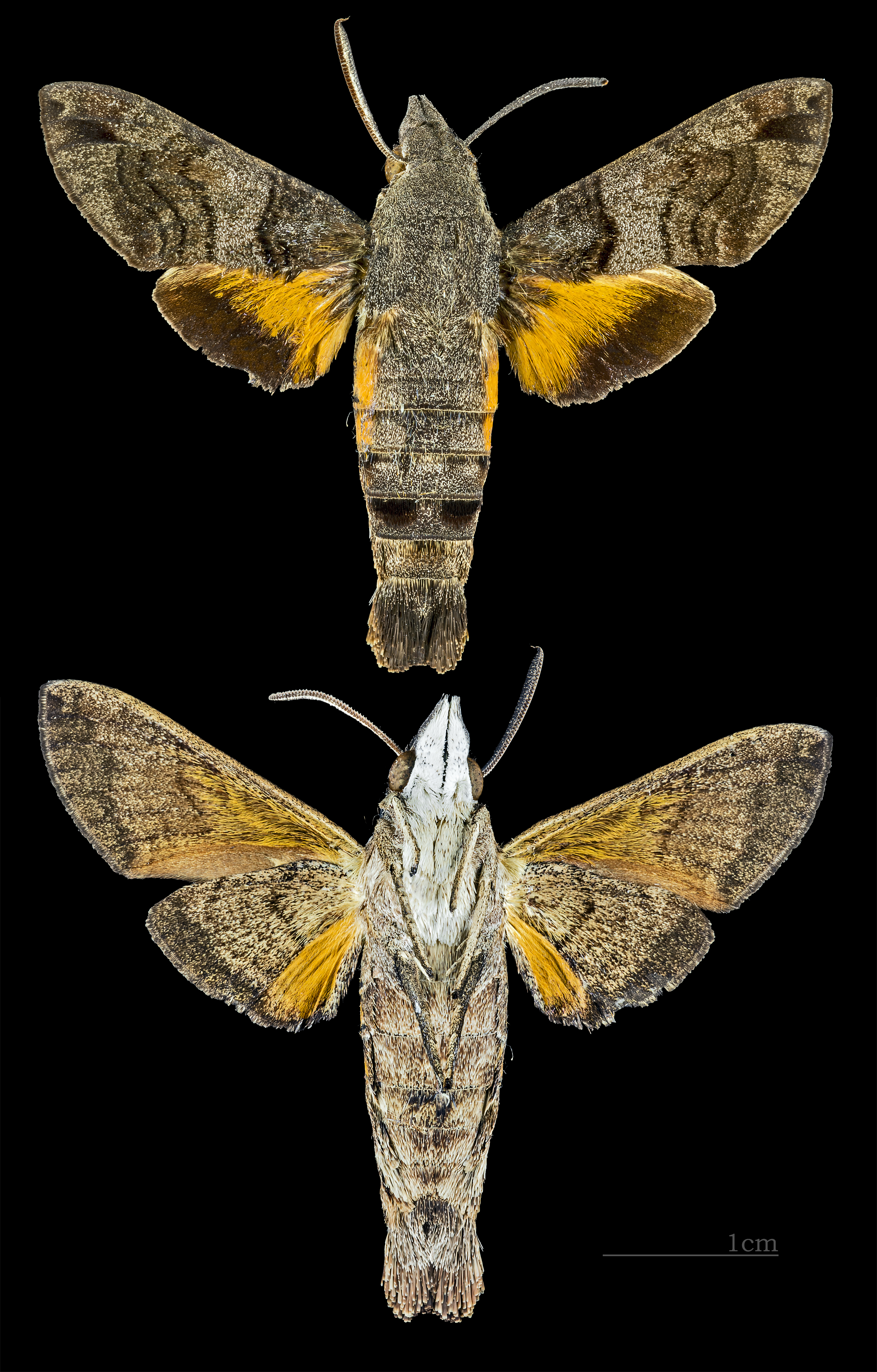 Macroglossum affictitia - Two views of same specimen Collection of the Mathematician Laurent Schwartz